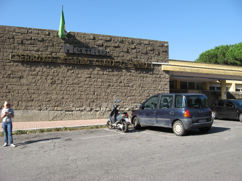 Train Station of Viterbo.